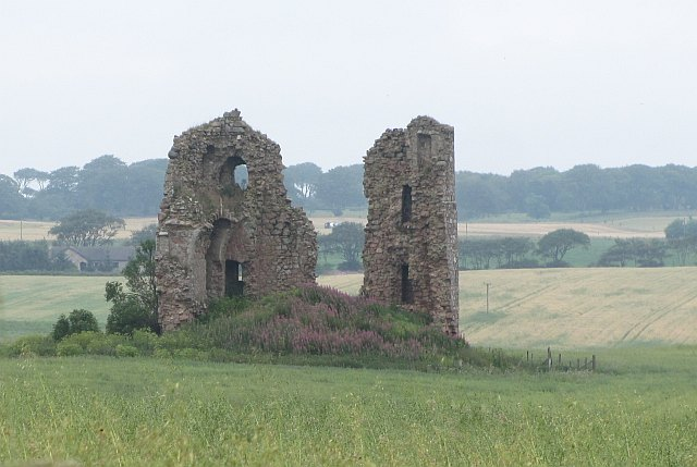 Fedderate Castle